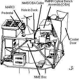 PMIRR is a nine-channel limb and nadir scanning atmospheric sounder designed to vertically profile atmospheric temperature, dust, water vapor and condensate clouds and to quantify surface radiative balance. PMIRR observes in a broadband visible channel, calibrated by observations of a solar target mounted on the instrument, and in eight spectral intervals between 6 and 50 µm in the thermal infrared. High spectral discrimination in the 6.7 µm water vapor band and in two parts of the 15 µm carbon dioxide bands is achieved by employing pressure (density) modulation cells in front of selected spectral detectors. Adequate signal-to-noise in these channels is ensured through the placement of their detectors on a cold focal plane assembly cooled to 80 K by a passive radiative cooler.